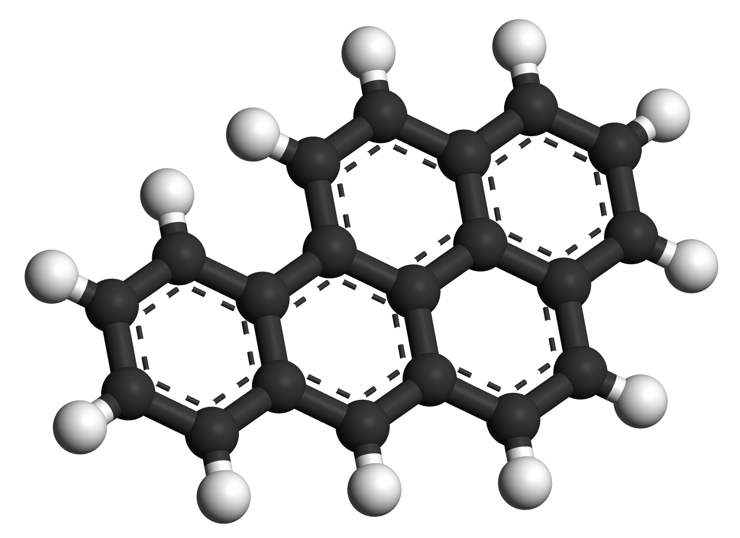 Modified (horizontal-flip) from the original image (Ball and stick model of the benzo(a)pyrene molecule) by me Drbogdan.